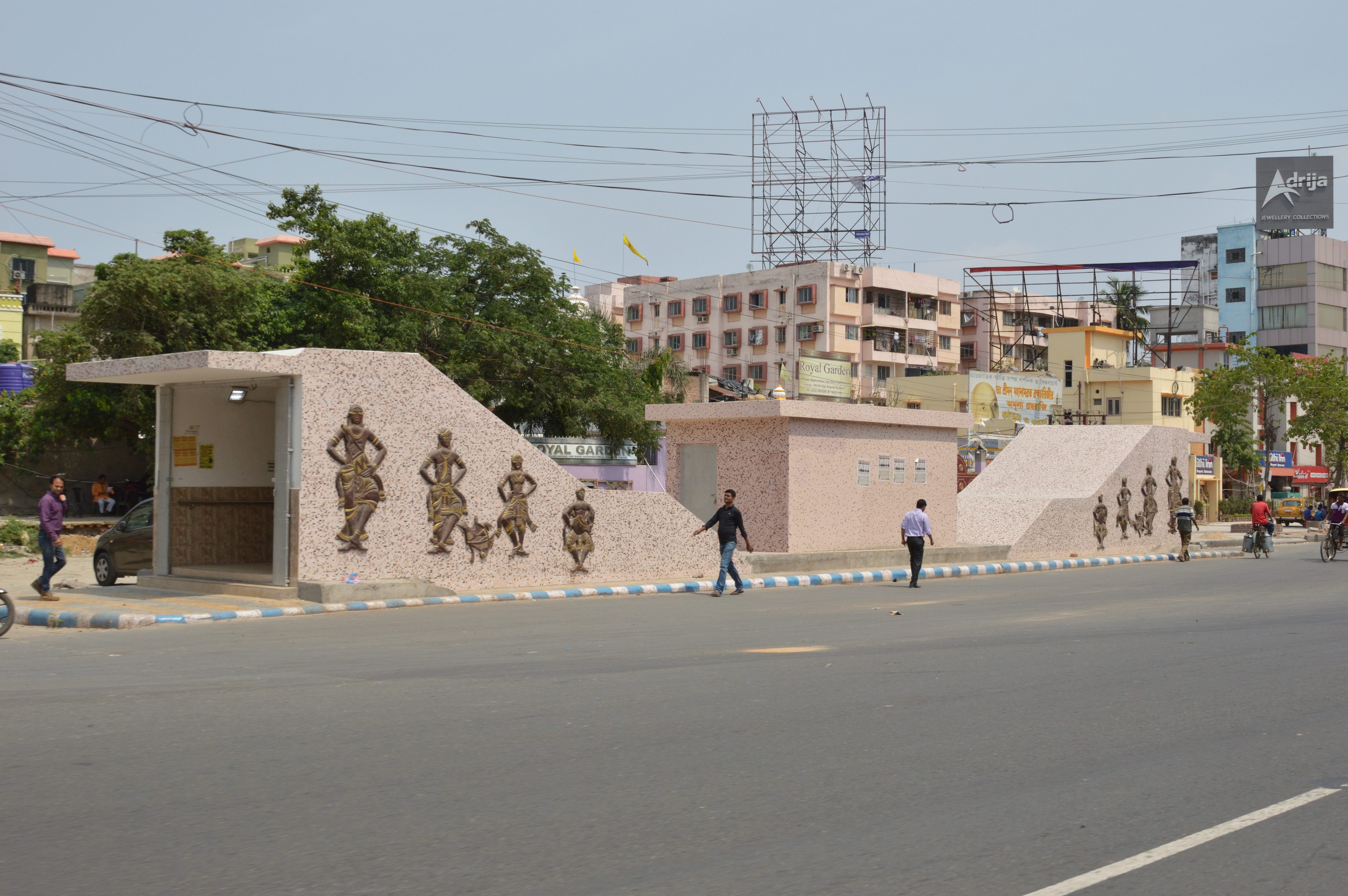 Photographed in North 24 Parganas, West Bengal, India.